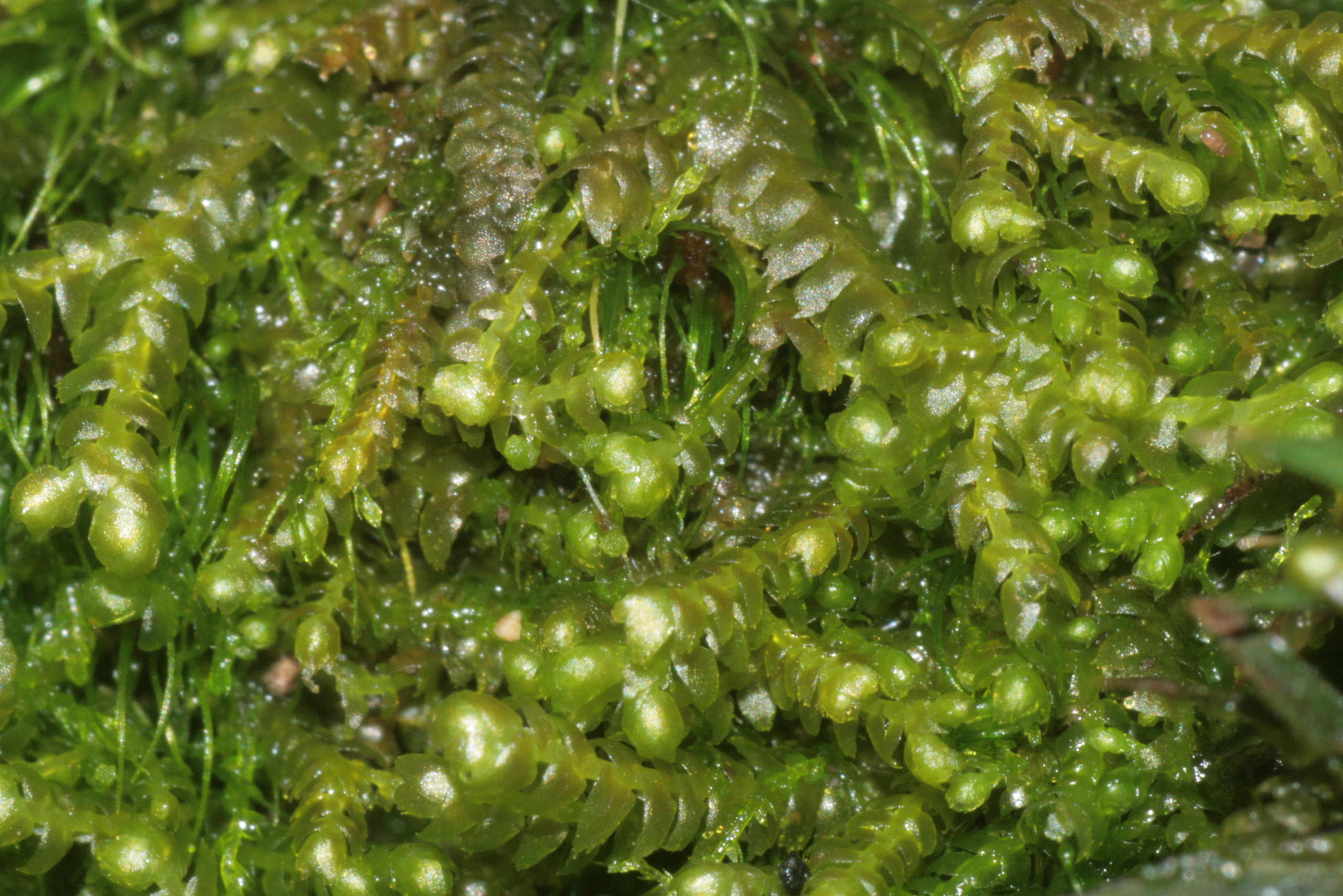 Bazzania flaccida